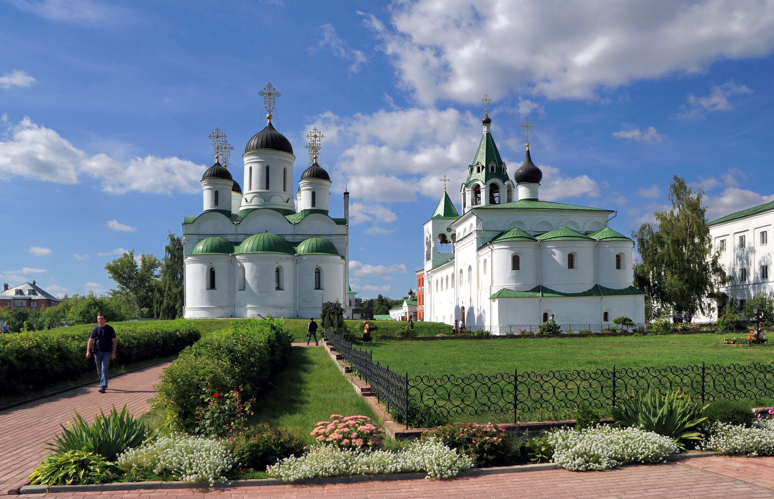 Murom. Transfiguration monastery. Transfiguration Cathedral and Saint Basil Church